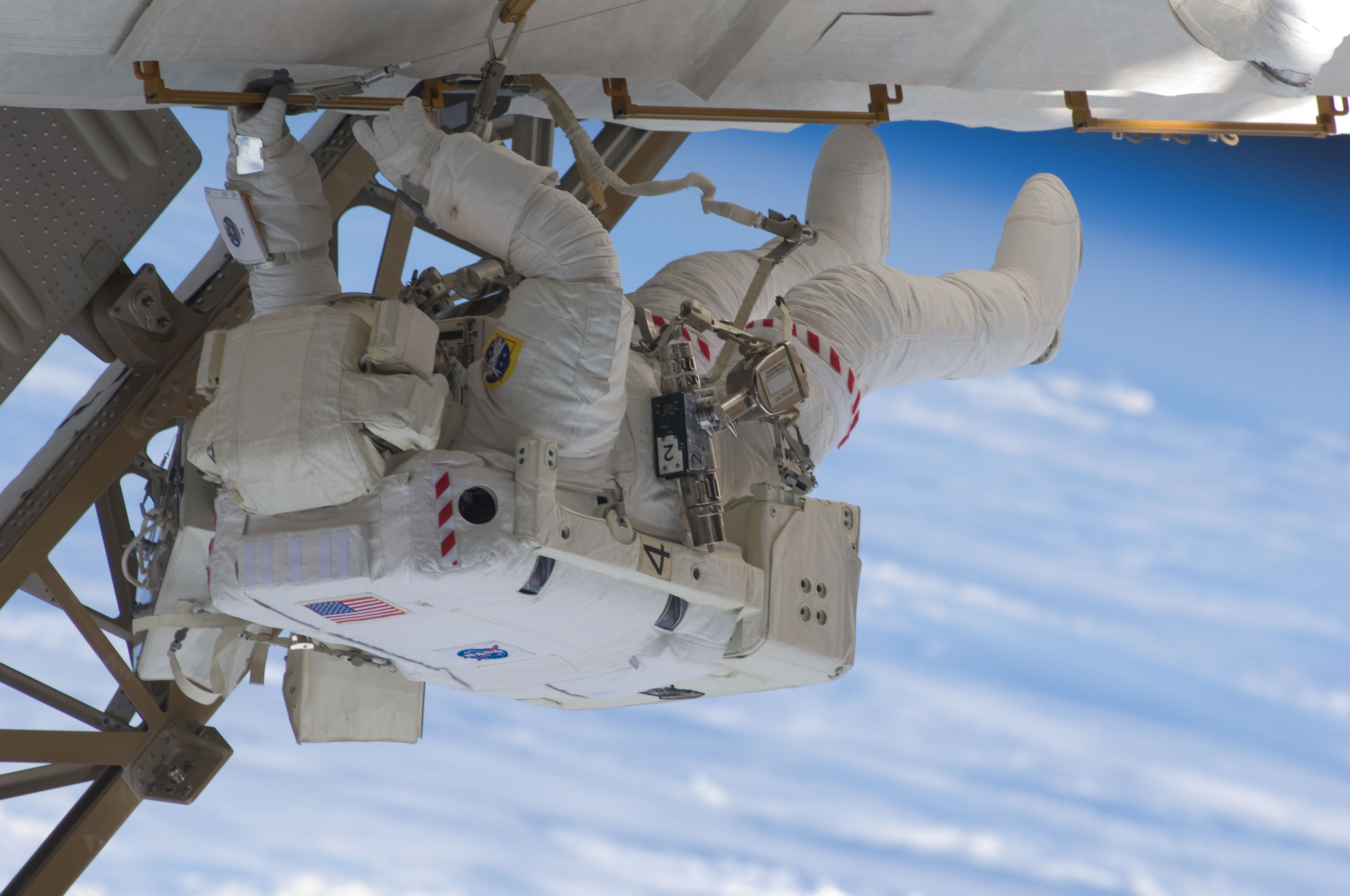 Astronaut Christopher Cassidy, STS-127 mission specialist, participates in Endeavour's third space walk of a scheduled five overall for this flight. This was Cassidy's first of a scheduled three sessions for him. Astronaut Dave Wolf, Cassidy's EVA colleague, is out of frame.